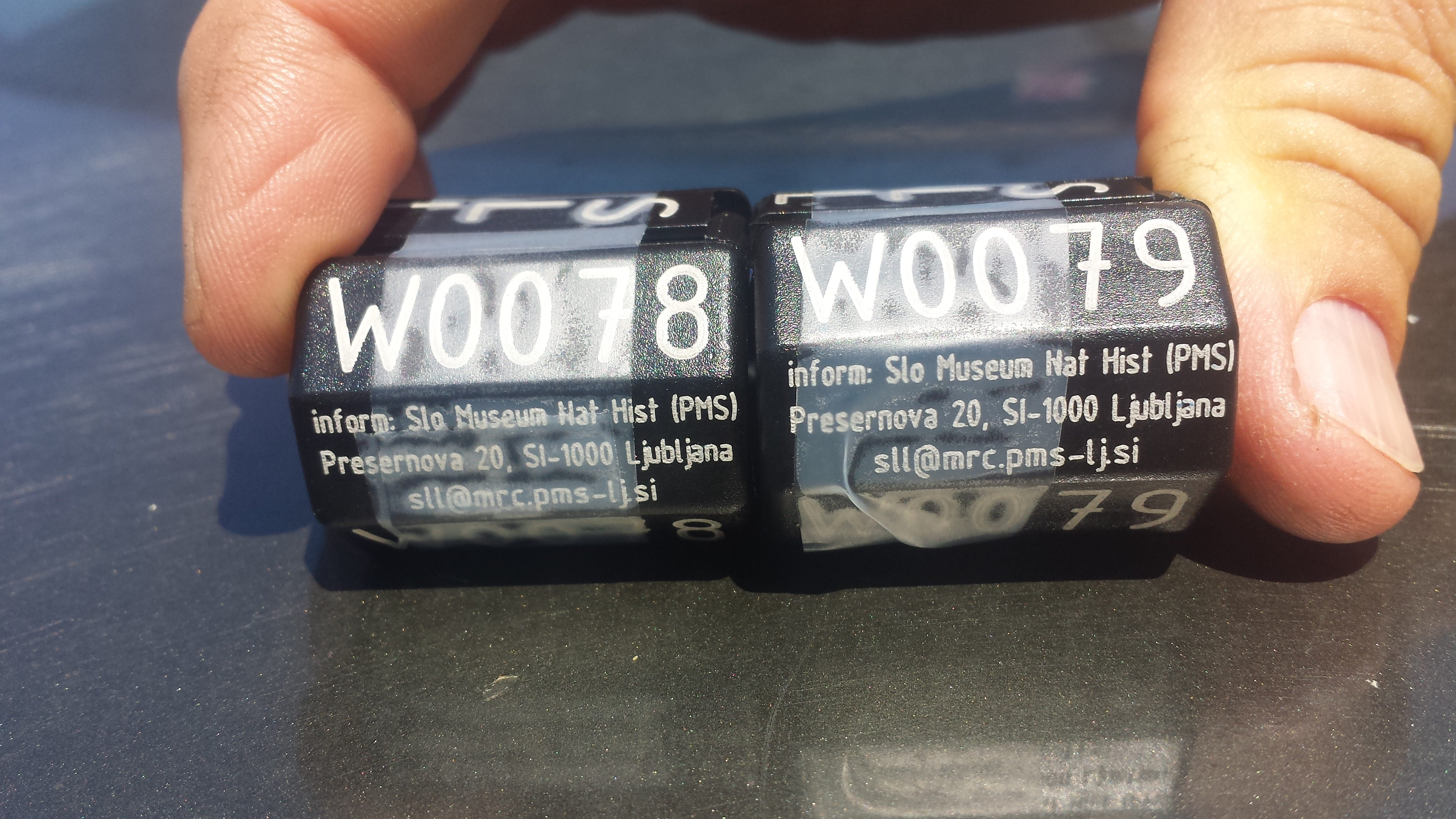 Ciconia ciconia